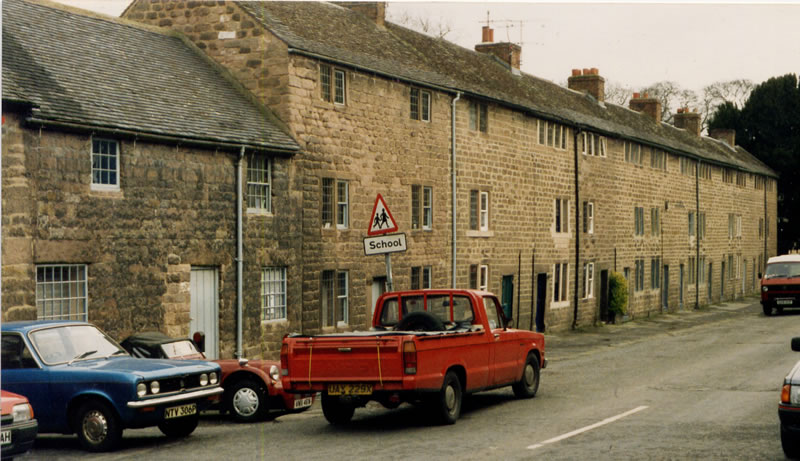 Workers cottages in Cromford with "weavers' windows" on the top floor. Probably occupied by framework knitters and their families, the latter would usually work in the mill.